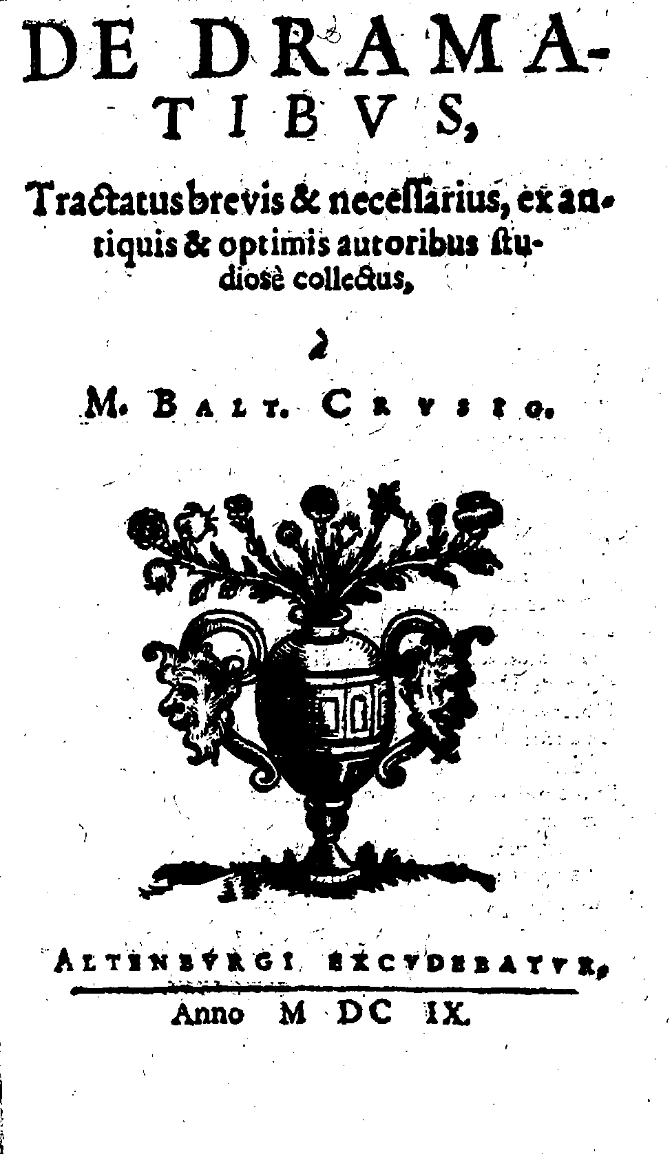 Frontispice of Balthasar Crusius' De Dramatibus: Tractatus brevis & ecessarius, ex antiquis & optimis autoribus studiose collectus